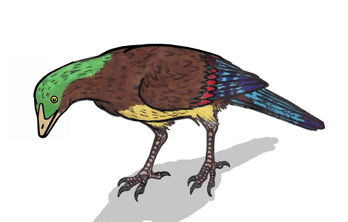 Illustration of Aberratiodontus, an extinct bird found in Liaoning province, China, and dated to the Aptian-stage. It was similar to the majority of modern birds, but had teeth. The illustration is based on the holotype skeleton, which can be seen at